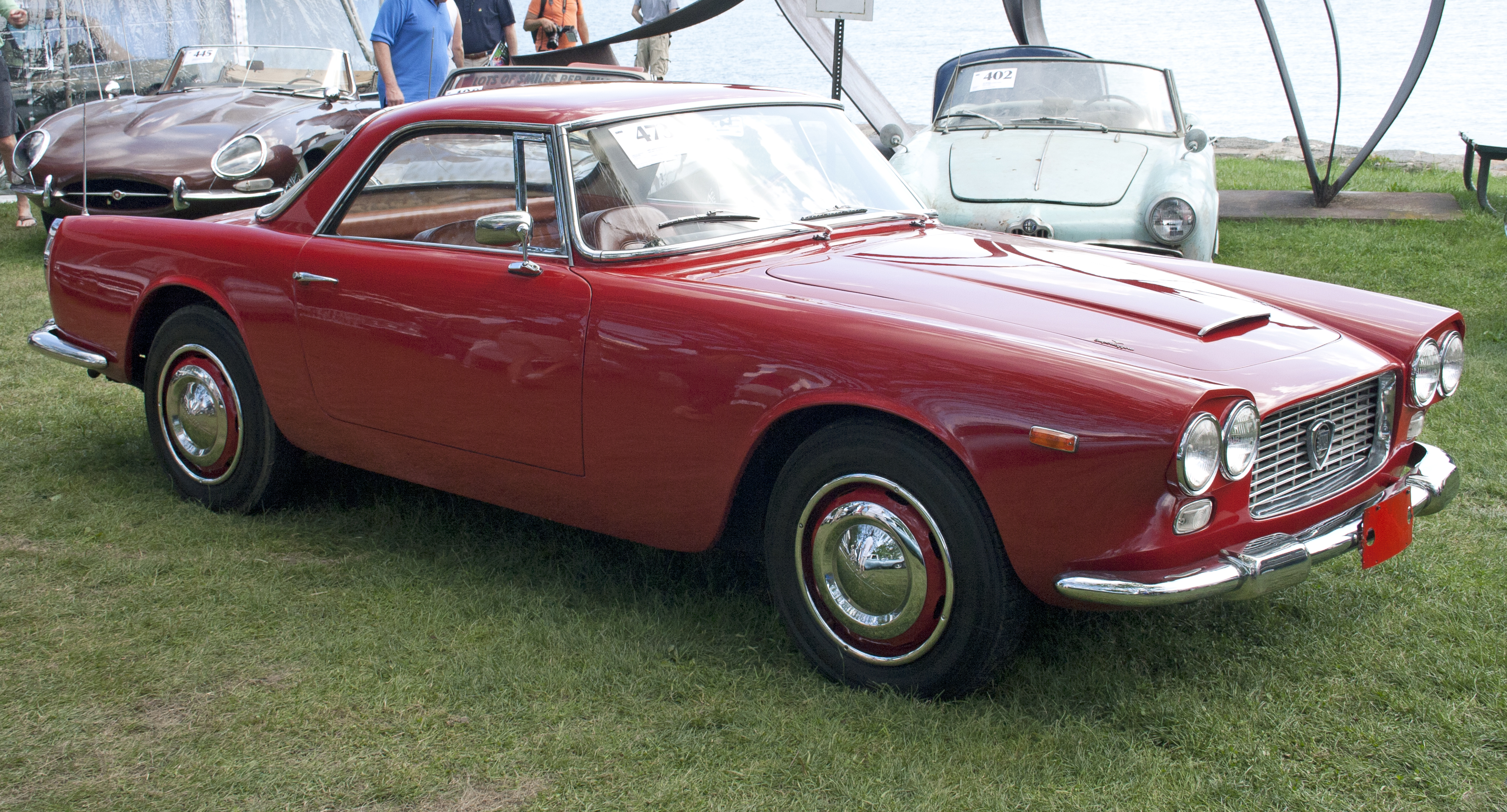 1961 Lancia Flaminia GT (Carrozzeria Touring). Chassis no. 824 00 1793, engine no. 823 00 4155, sold new to France. Seen at the Bonhams auction at the 2012 Greenwich Concours d'Elegance.